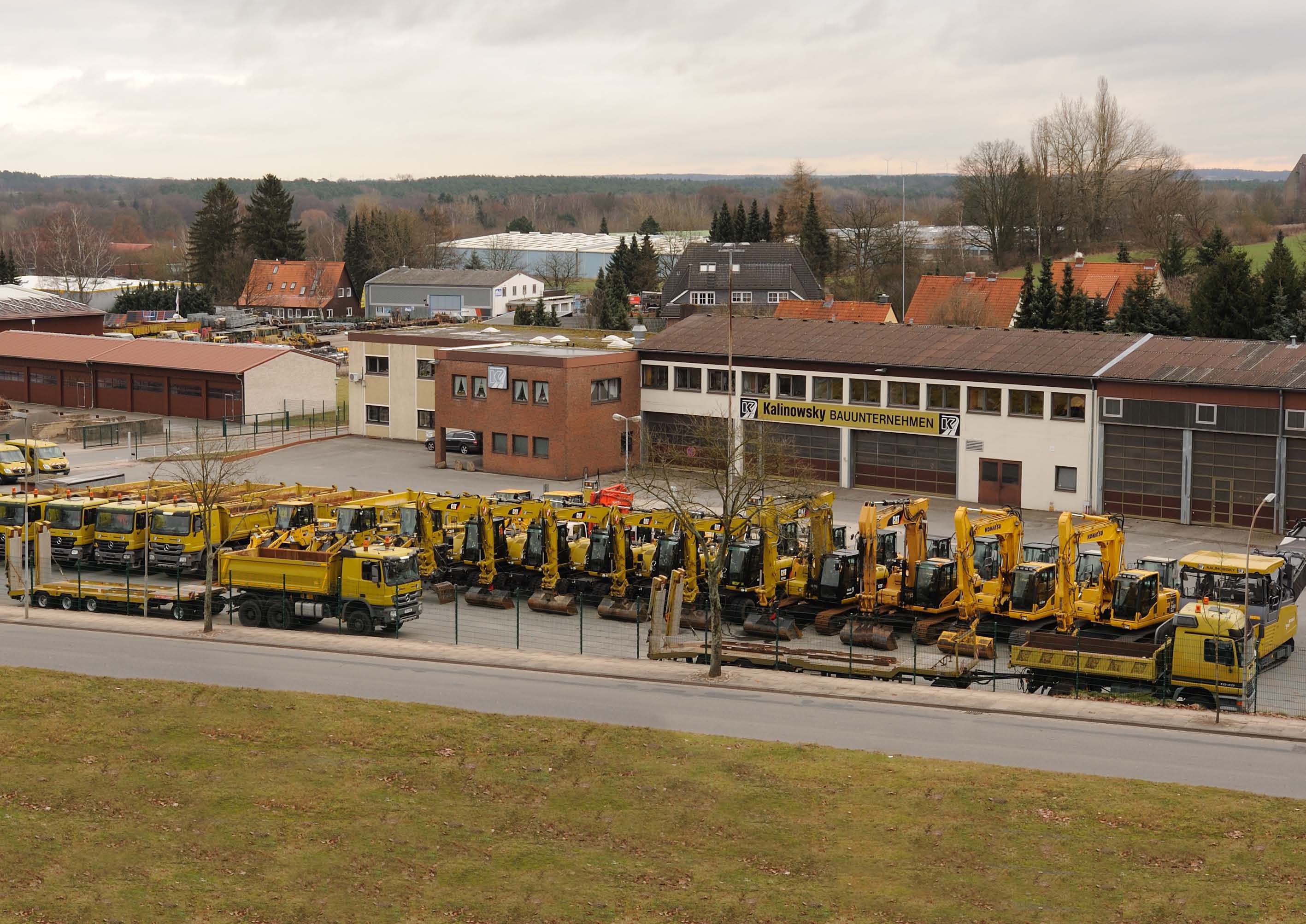 Betriebsgelände der Ewald Kalinowsky GmbH & Co. KG in Bad Bevensen